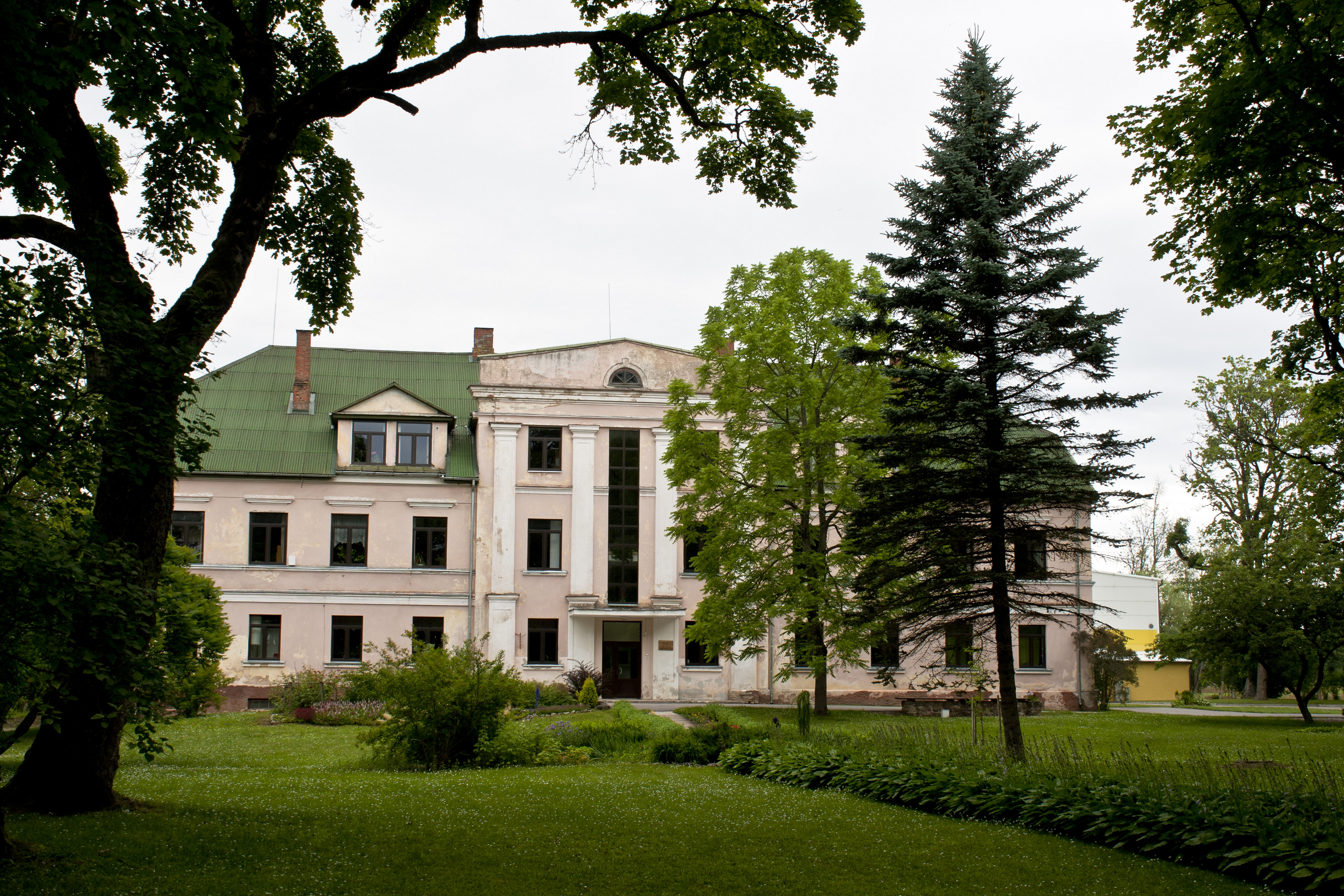 Cēre ManorLatviešu: Cēres muižas pils